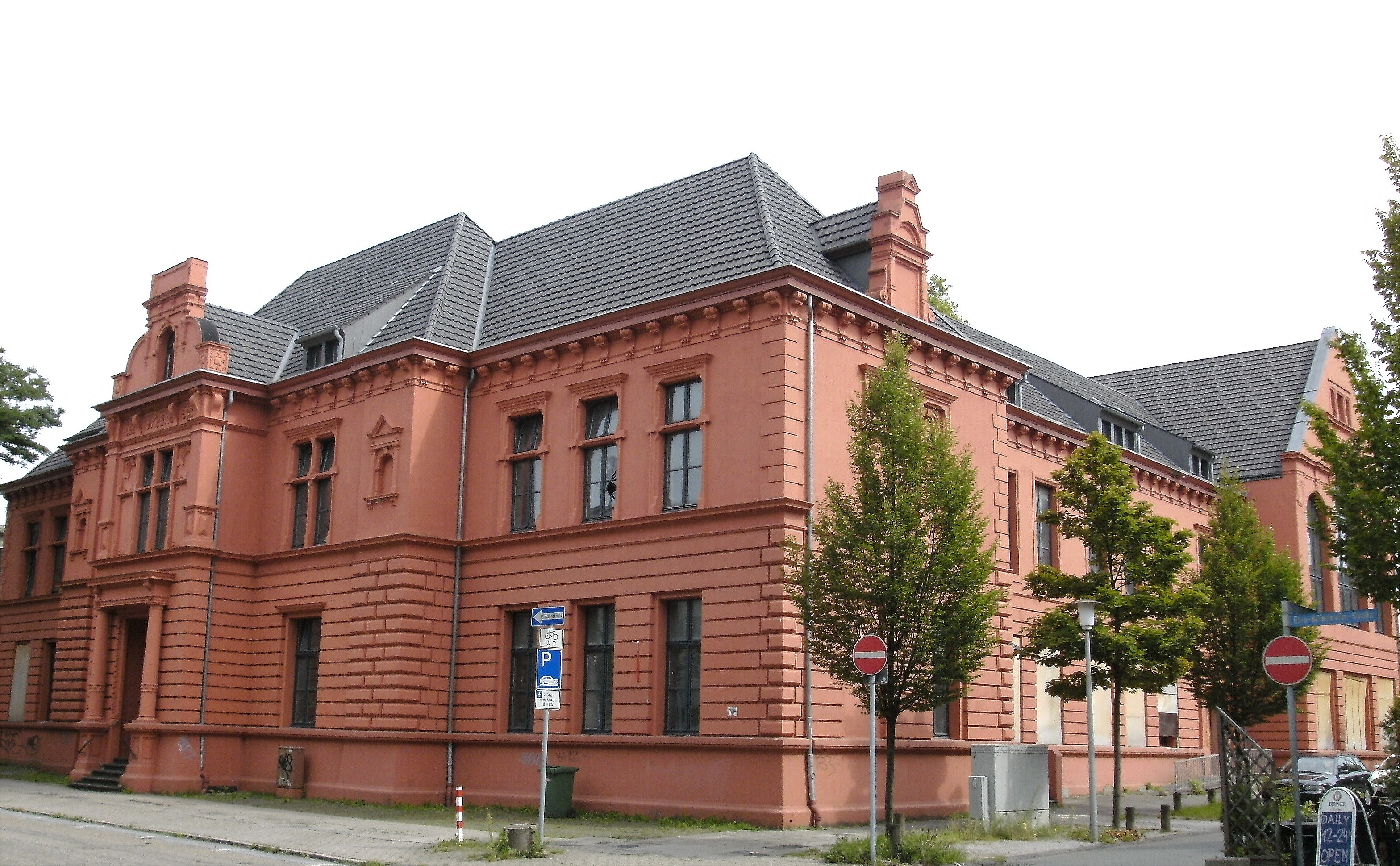 Former secondary school for girls in Oberhausen (Germany)